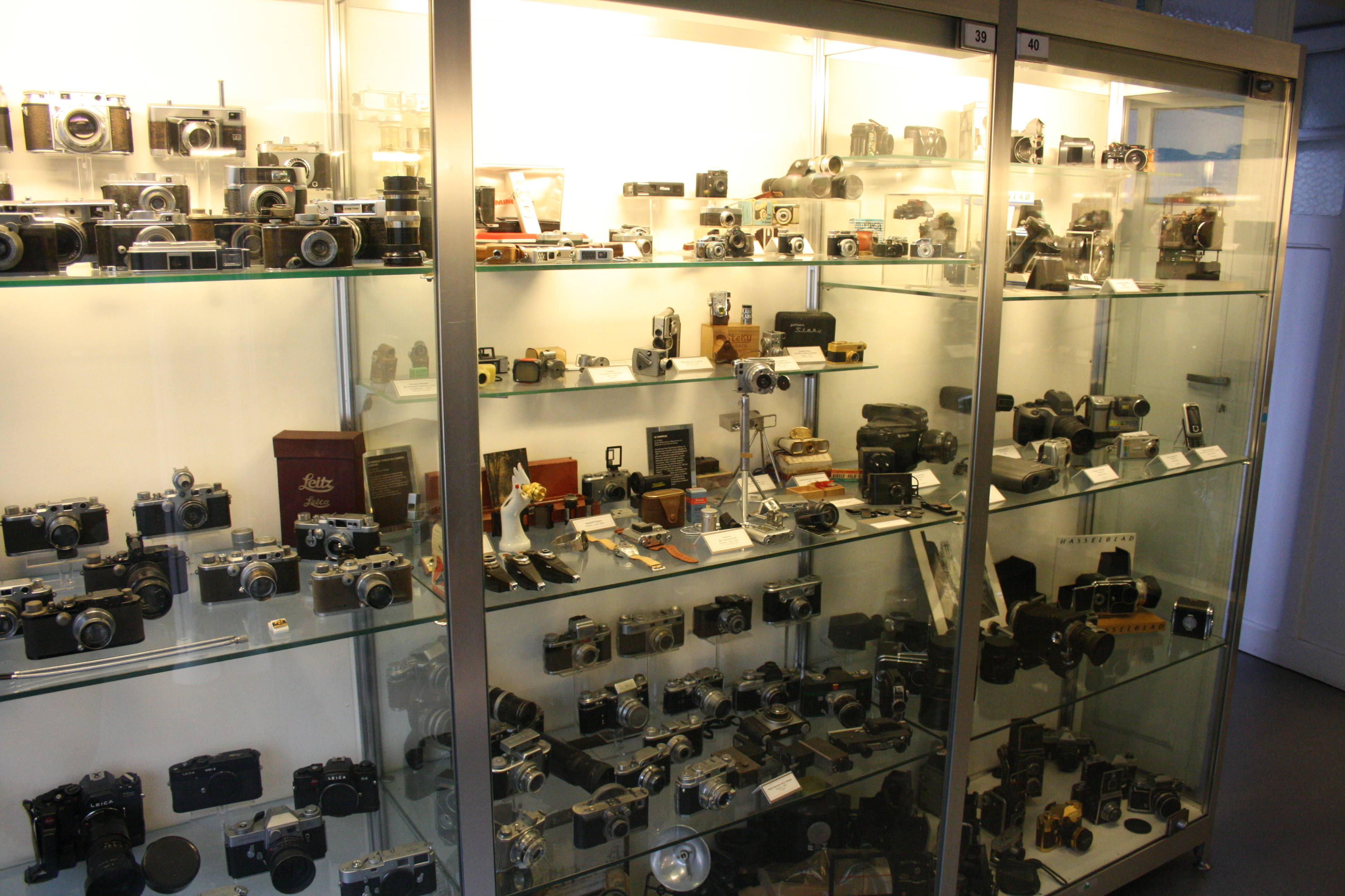 French Museum of Photography in Bièvres, Essonne, France.